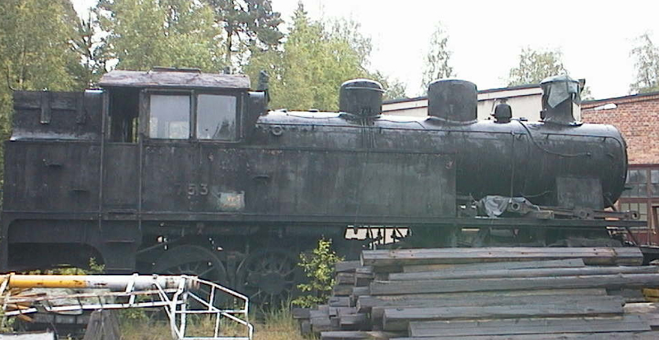 VR Class Vr3 steam locomotive no. 753 at Haapamäki, Keuruu, Finland